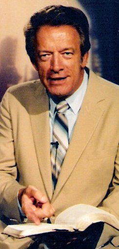 American Christian theologian Dave Breese